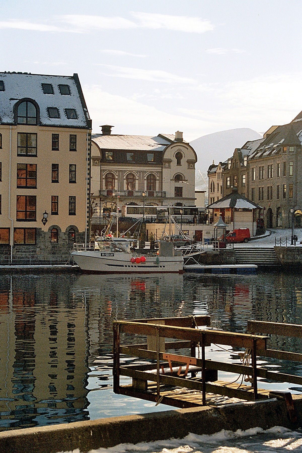 February 2005